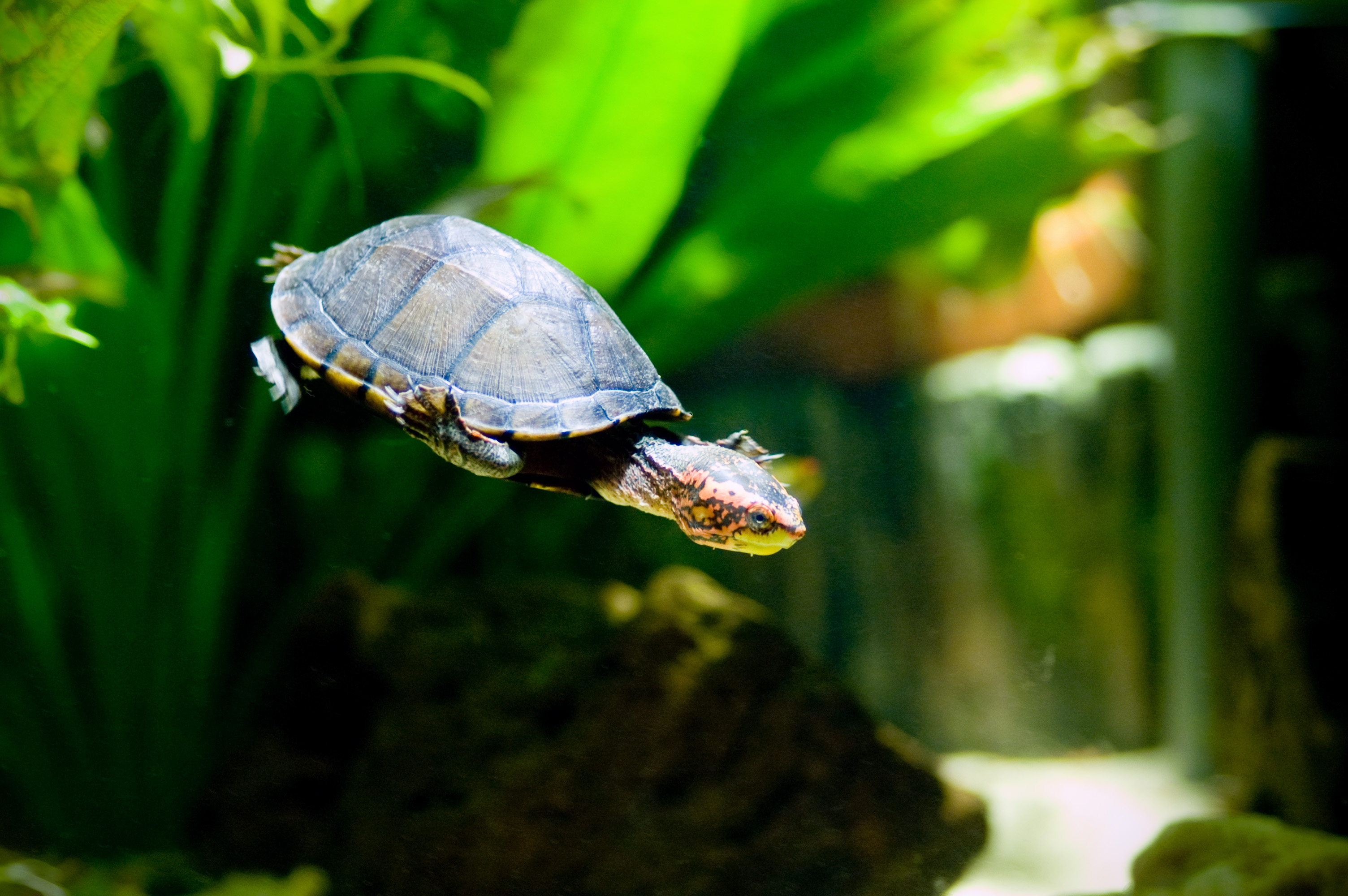 Kinosternon scorpioides cruentatum (Red-cheeked mud turtle), juvenile, about 1 year old